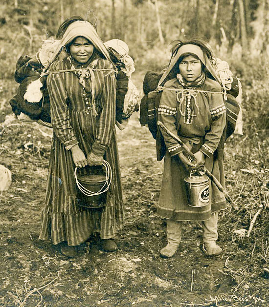 Chief Stickwan's two daughters holding buckets and carrying burdens on backs with trumplines